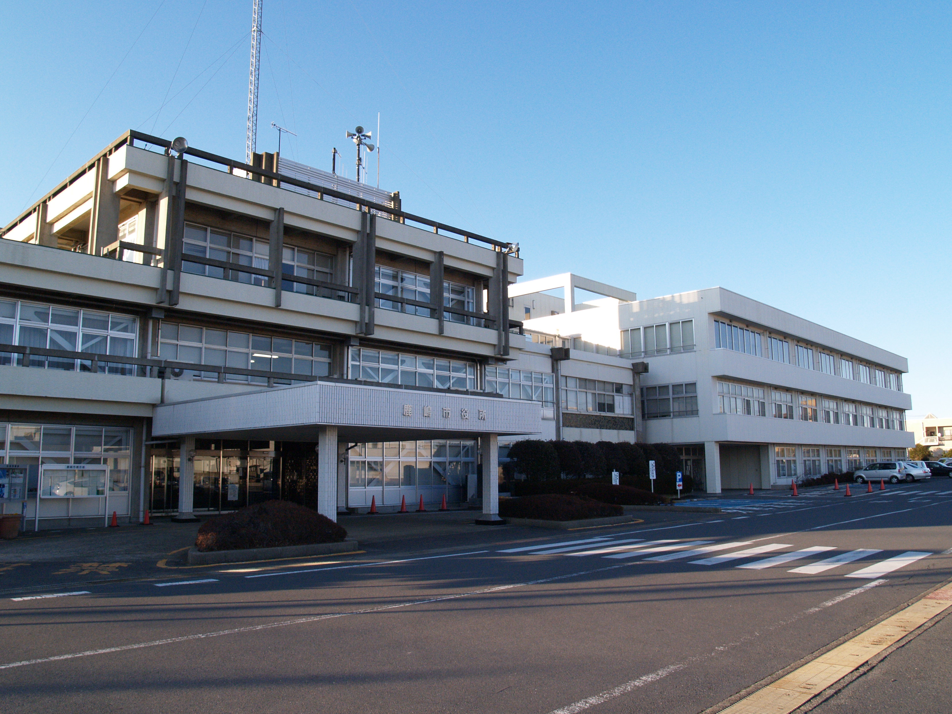 Kashima City Office, Ibaraki, Japan.